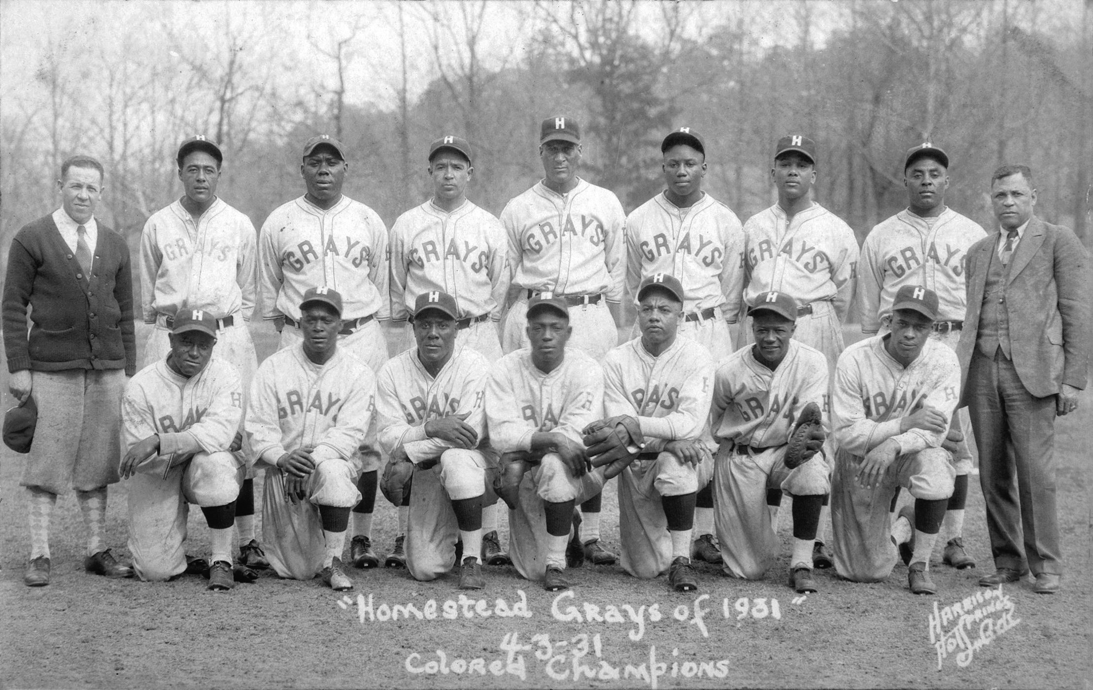 1930-31 Homestead Grays. Authorities on the Negro Leagues have made them the consensus pick as the best team ever. Standing: Cumberland Posey*, Bill Evans, Jap Washington, Red Reed, Smokey Joe Williams*, Josh Gibson*, George "Tubby" Scales, Oscar Charleston*, Charlie Walker, Jr.Kneeling: Chippy Britt, Lefty Williams, Jud Wilson*, Vic Harris, Ted "Double Duty" Radcliffe, Ambrose Reed, Ted Page. (*Hall of Fame)